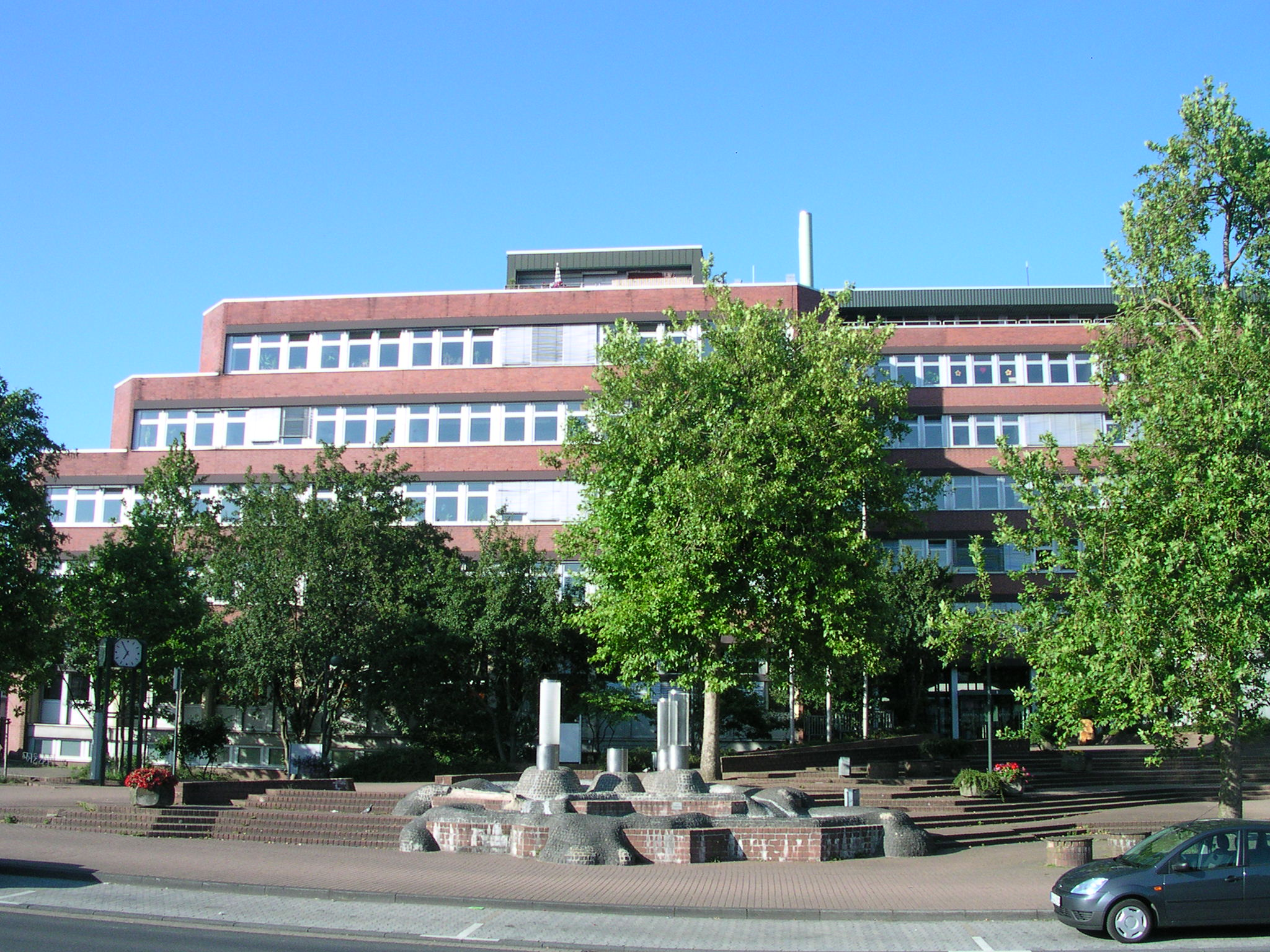 new town hall of Eschweiler